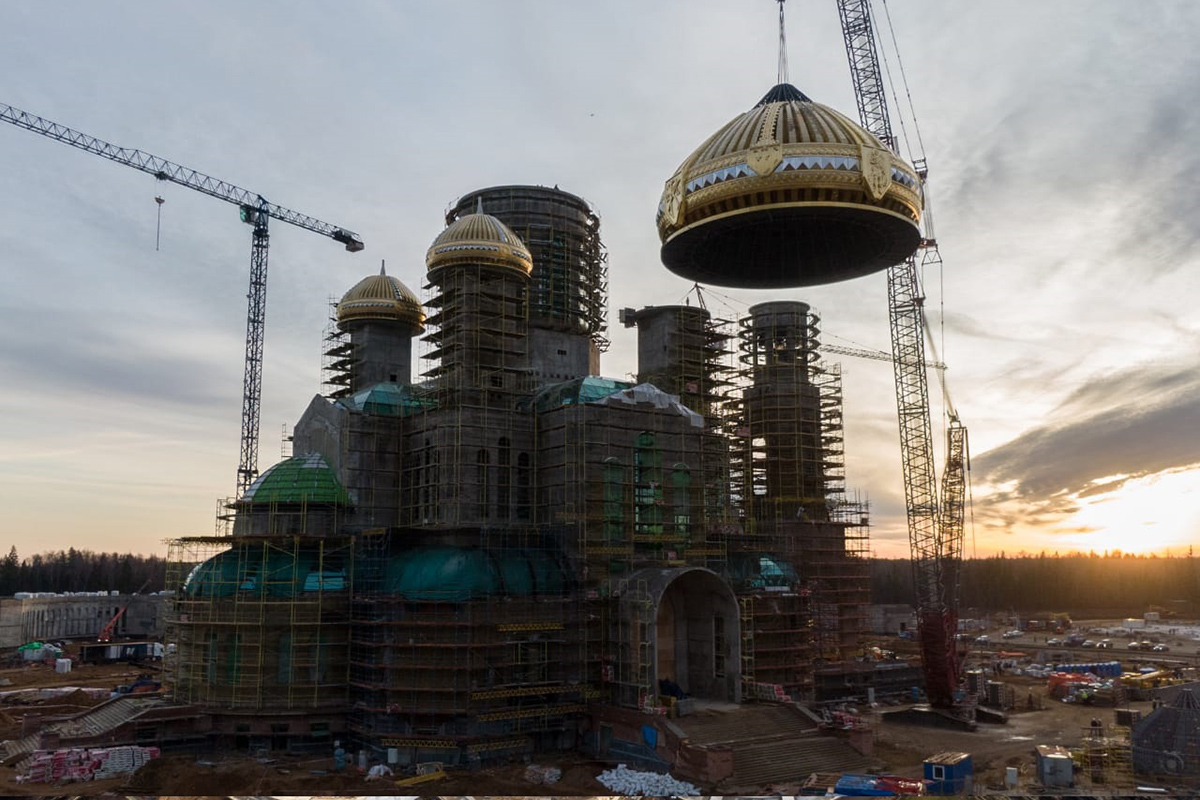 Установка центрального купола Главного храма ВС РФ